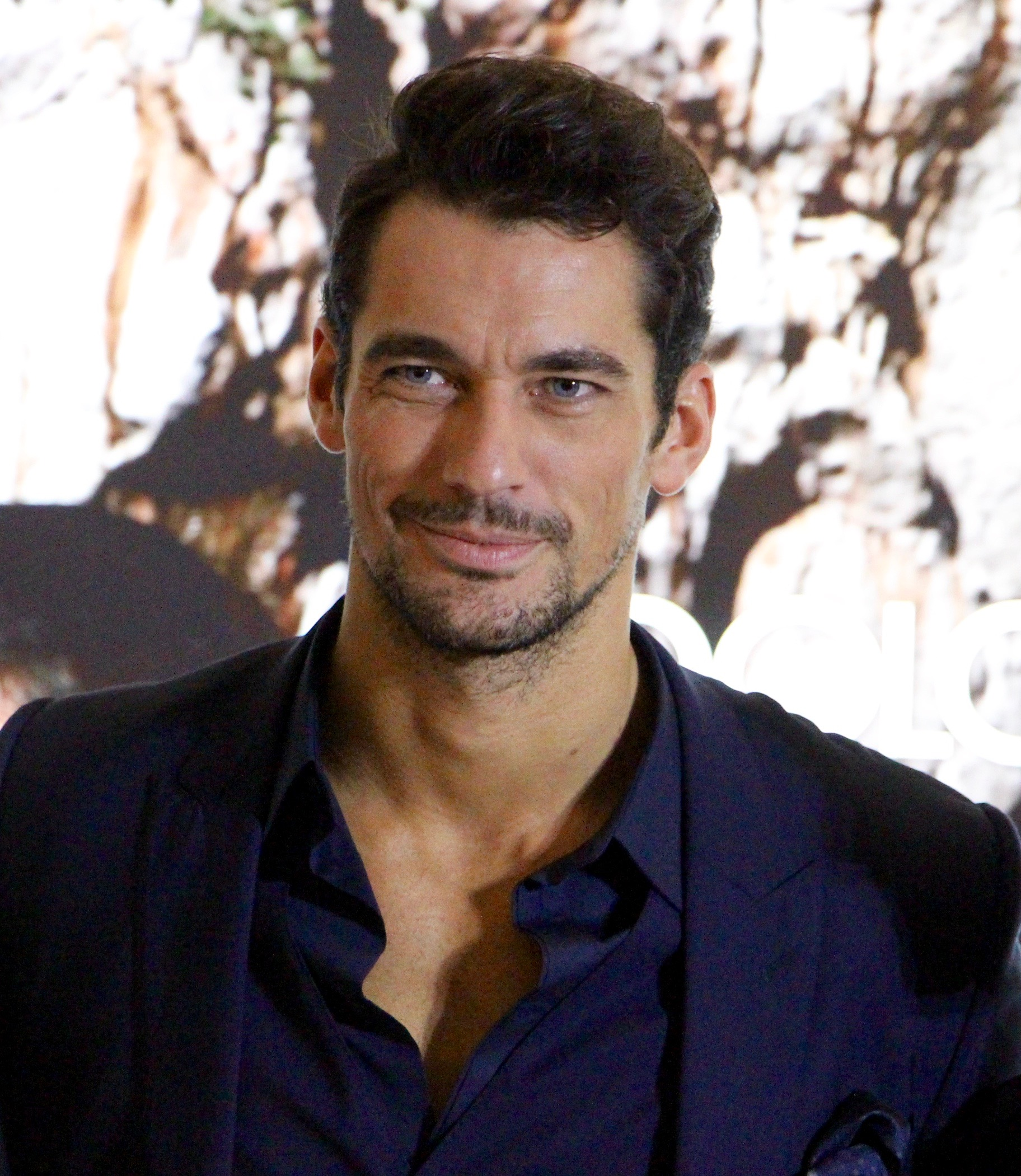 David Gandy at the Ion Mall, Singapore 2015.